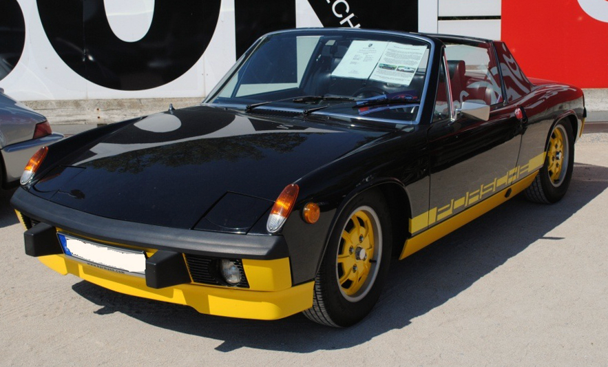 1974 Porsche 914 LE "Bumblebee". This was a special limited edition 914 for the US market. All had the 2.0 liter fuel injected engine and Can-Am style wingkit. It was also available in white with red stickers ("Creamsicle")